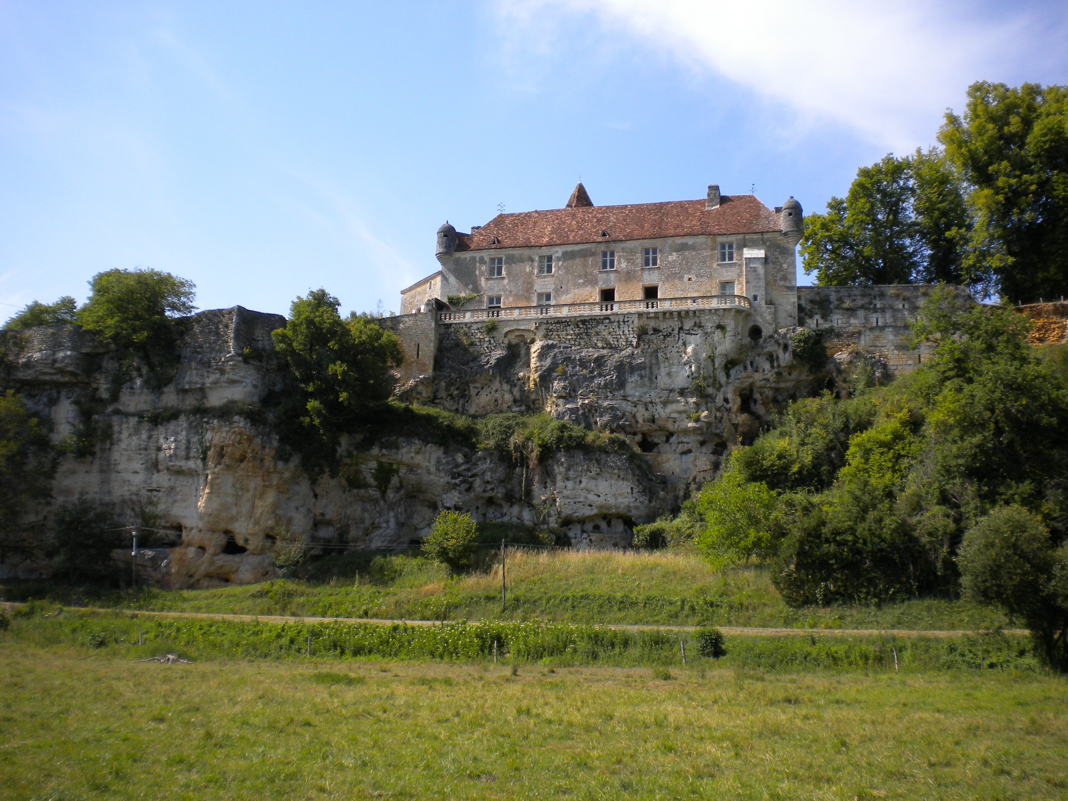 The Fifteenth Century Castle Château d'Aucors in the commune of Beaussac, Dordogne, France.